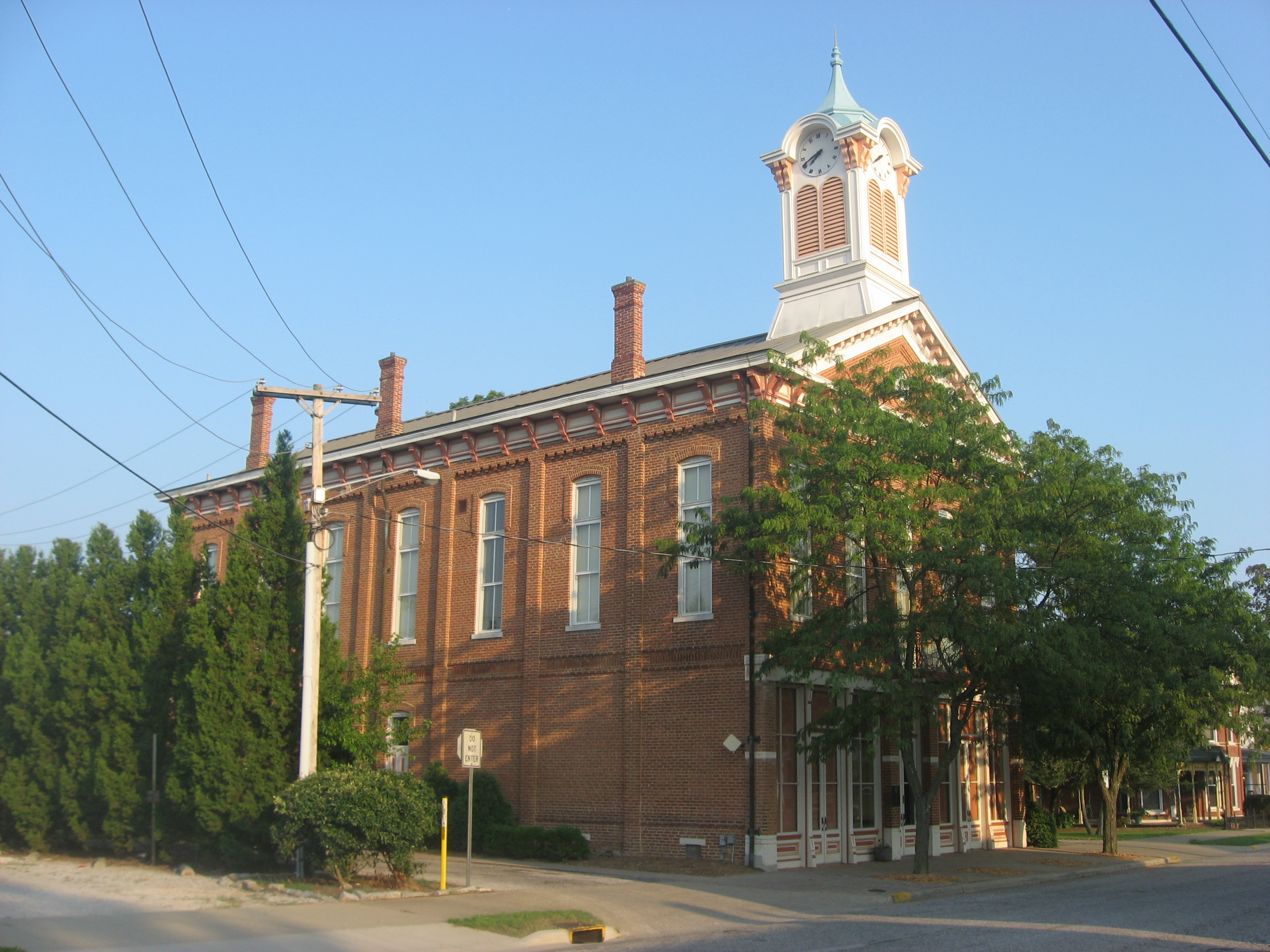 Front and northern side of the former Huntingburg Town Hall and Fire Engine House, located at 311 Geiger Street in Huntingburg, Indiana, United States. Built in 1865, it is listed on the National Register of Historic Places, and it is part of a Register-listed historic district, the Huntingburg Commercial Historic District.